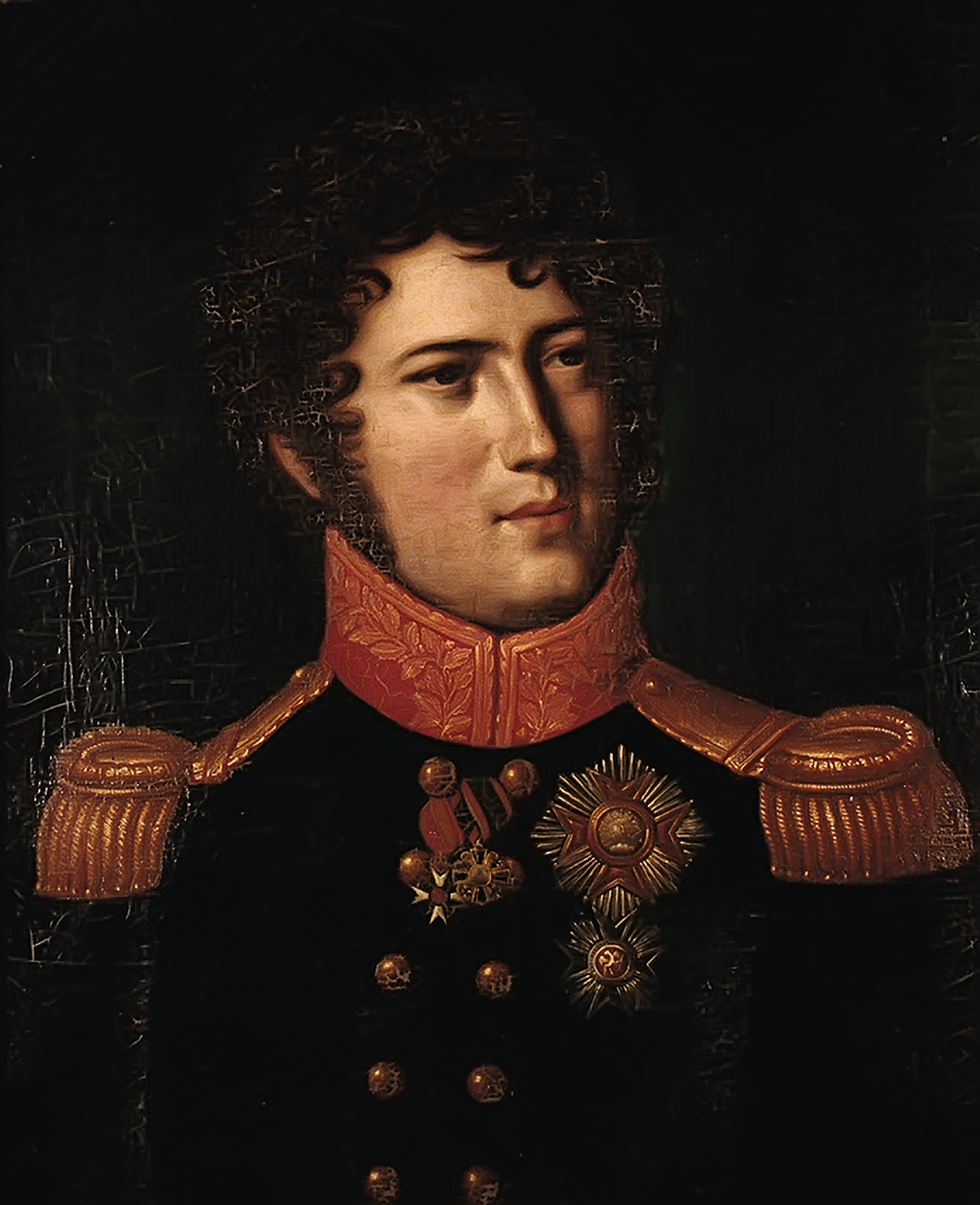 Karl Ludwig Friedrich Grand duke of Baden. 1786-1818.